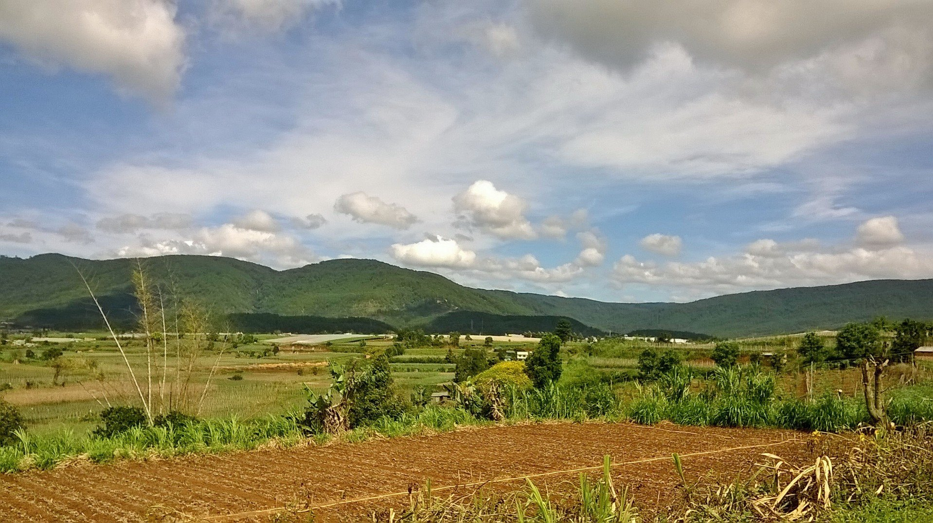 Picture taken at Ka Do commune, Don Duong District, Lam Dong Province. It shows a piece of farming land. At the background is a range of mountain (also belongs to Di Linh Highland)